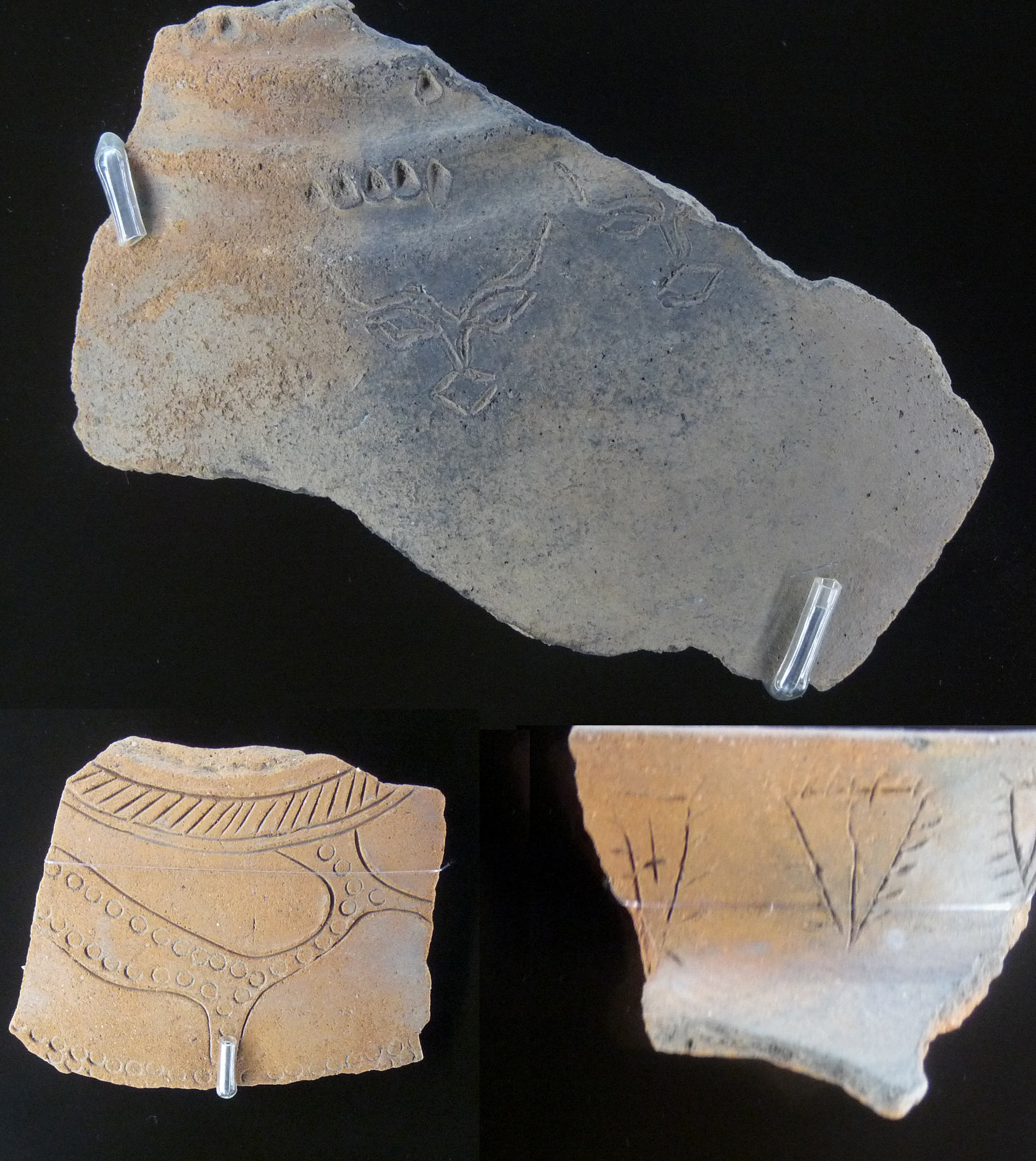 Shisanhang sherds with incised and impressed figurative patterns. SSH Museum